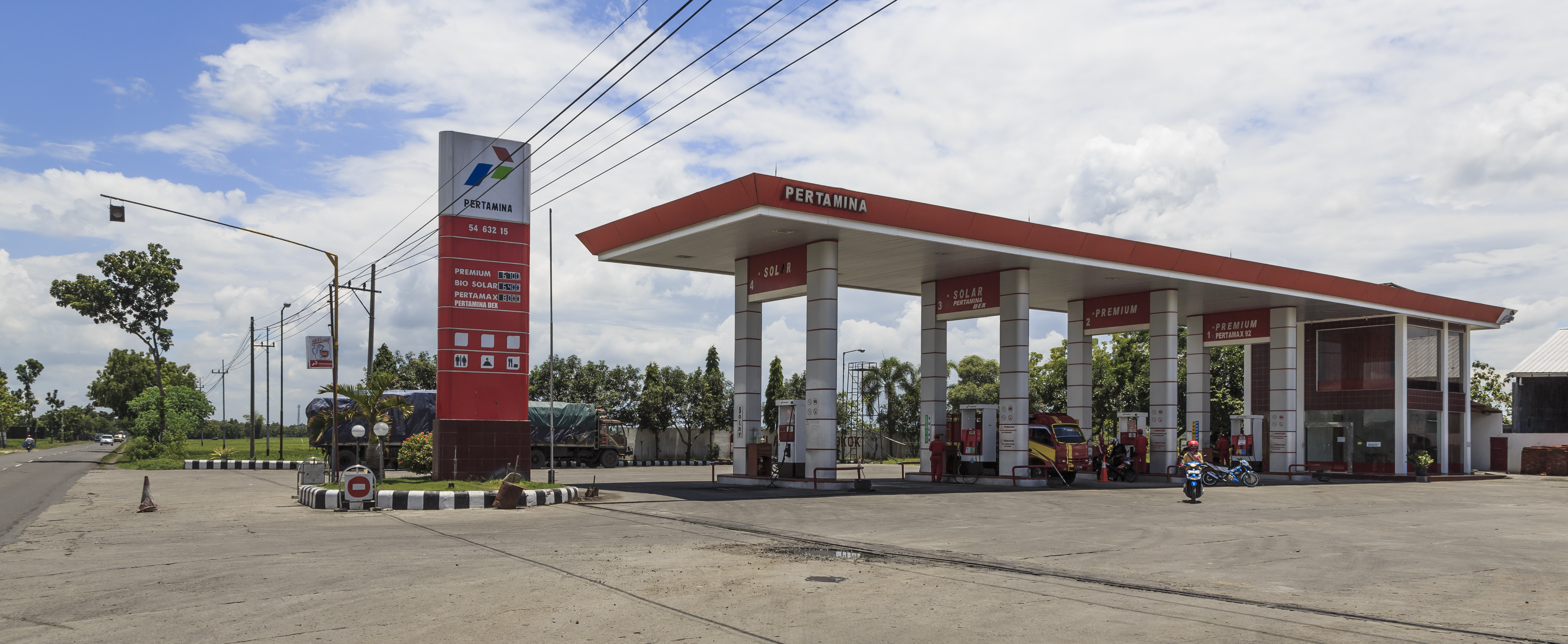 Sukoharjo Regency, Indonesia: A Pertamina fuel station.